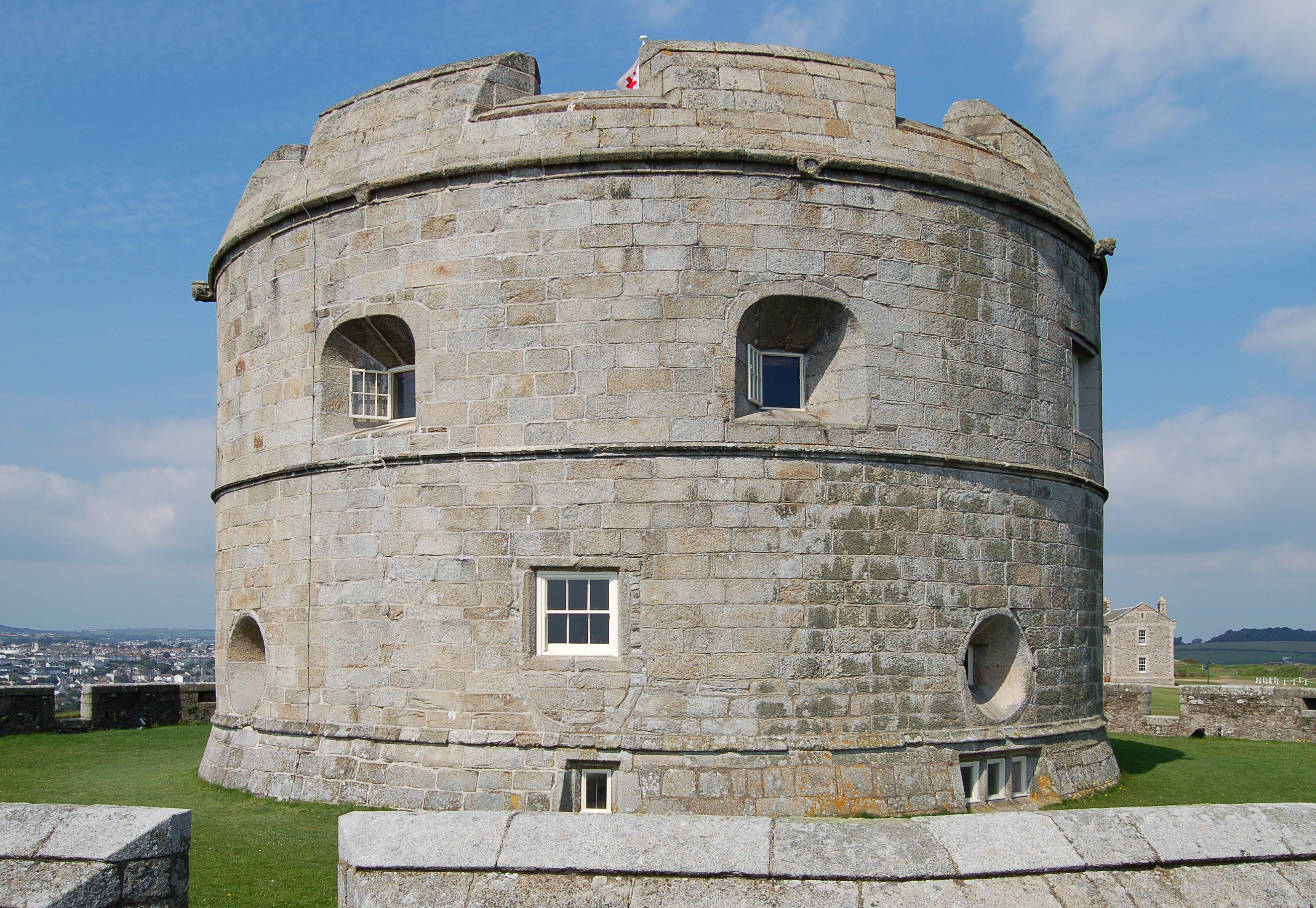 The keep of Pendennis Castle in Falmouth, Cornwall, standing on top of the gun platforms.